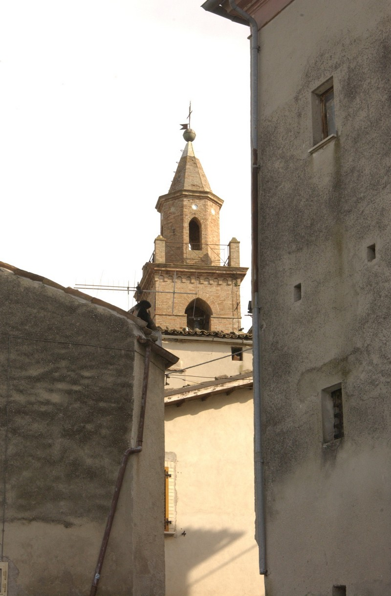 Stephen Mark Ulissi 2007 All rights released